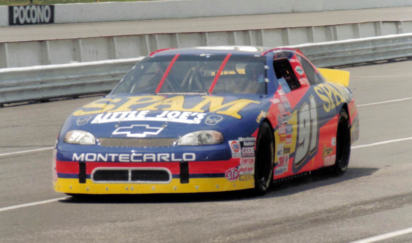 NASCAR driver Mike Wallace in the #91 Spam-sponsored machine at Pocono in 1997.